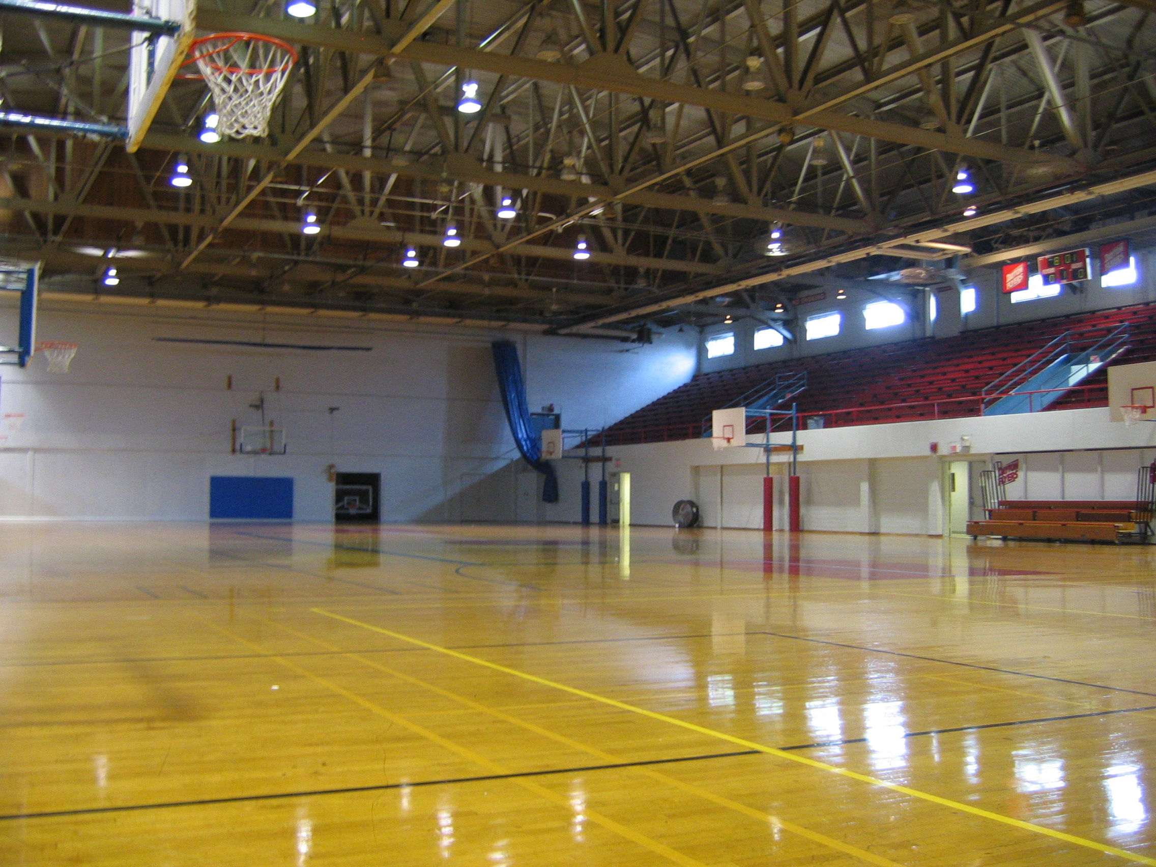 Football & Basketball Facilities U Dayton campus Gym